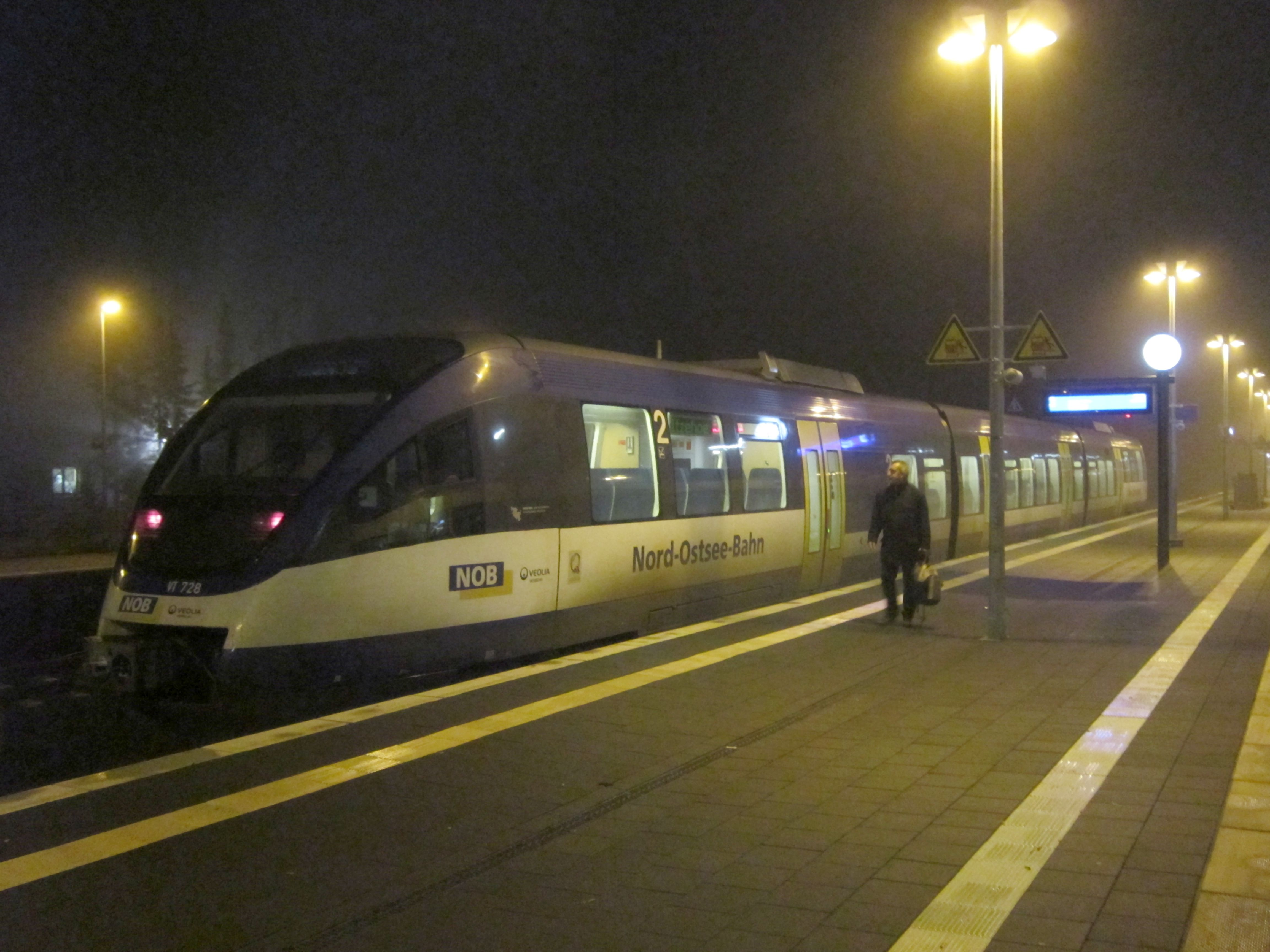 Nord-Ostsee-Bahn Bombardier Talent train at Husum (Germany) station